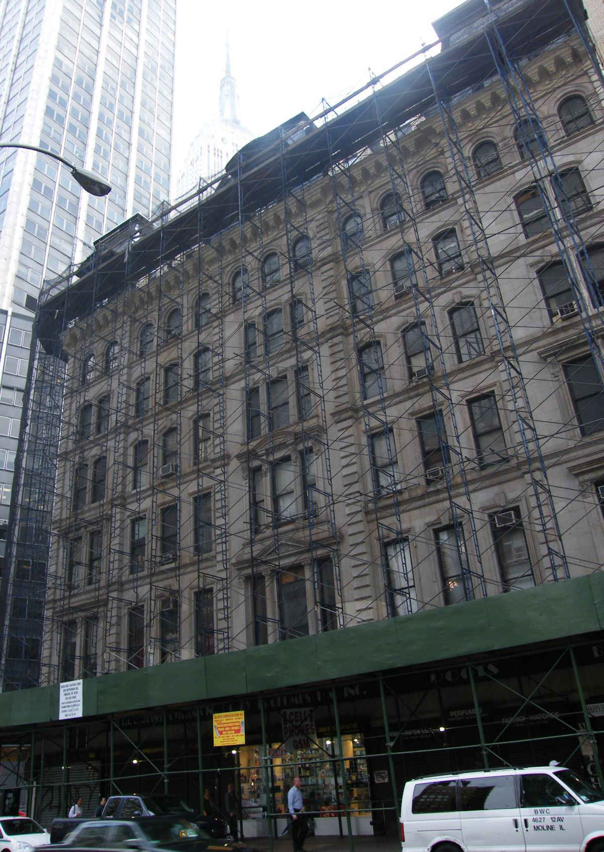 Looking northeast across Broadway towards 31st Street and Grand Hotel (now Clark Apartments) in New York City. Architect: Henry Engelbert.